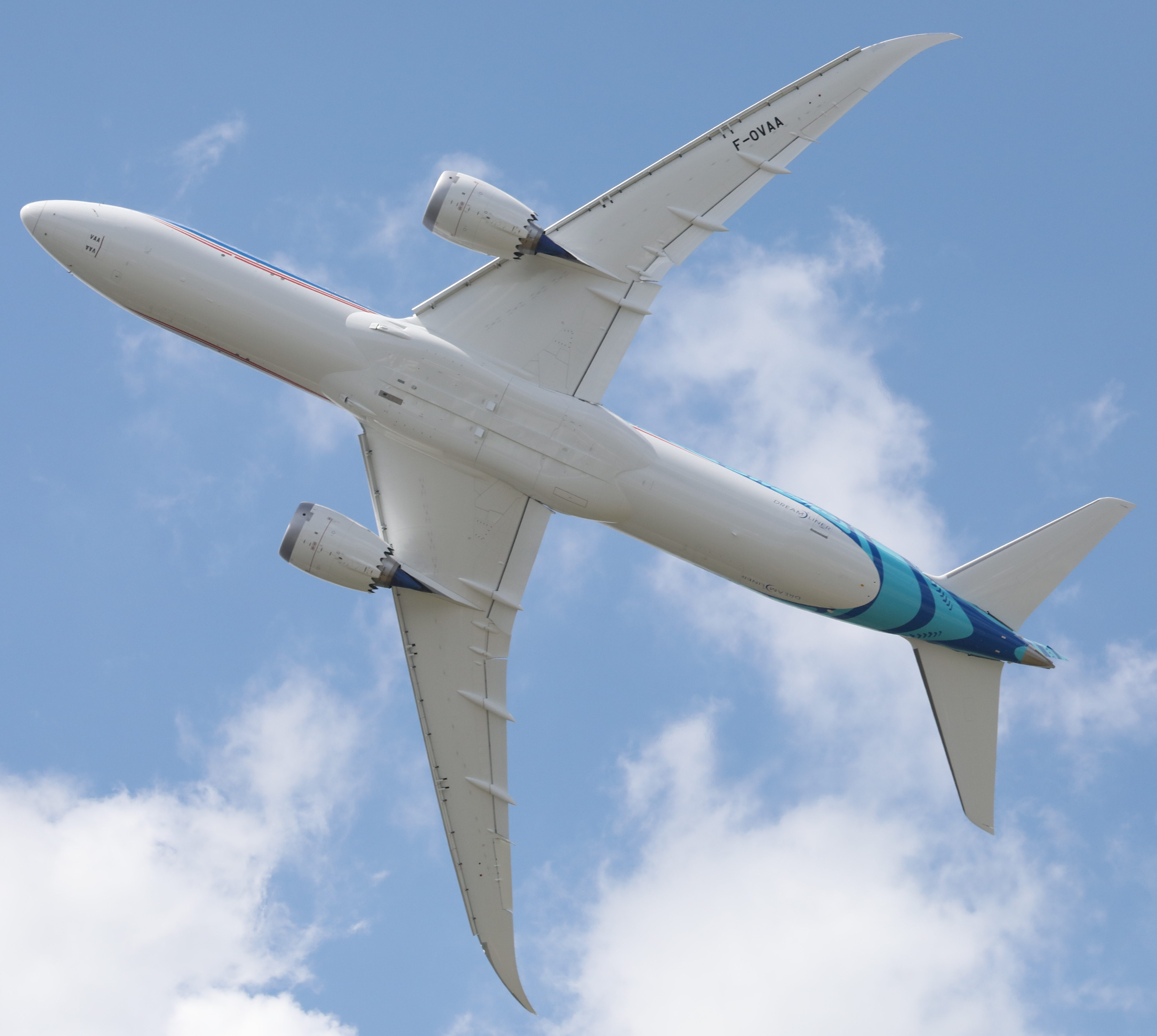 Paris Air Show 2019